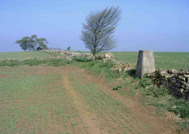 Ebrington Hill This trig point, on the Warwickshire/Gloucestershire border, is 259 metres above sea level. Warwickshire's highest point (261 metres), is either beneath the clump of trees, on the horizon, or close to the nearby communications station.